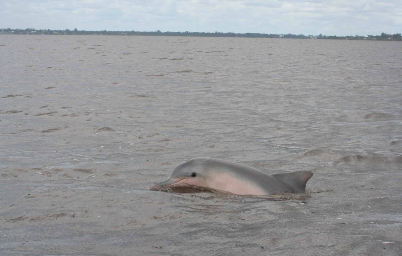 Looking for River dolphins, Sotalia guianensis, at Braamspunt, Suriname.